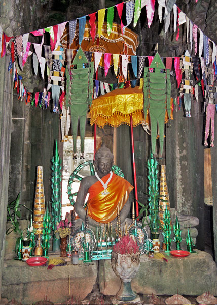 Banteay Kdei. Angkor. Cambodia